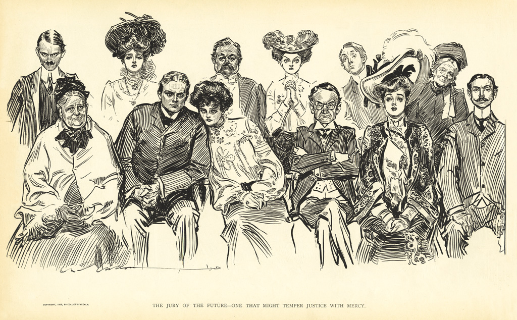 Charles Dana Gibson (American illustrator, 1867-1944) 1903 pen and ink on paper illustration for Collier's Weekly; published in the artist's collection The Weaker Sex (1903)